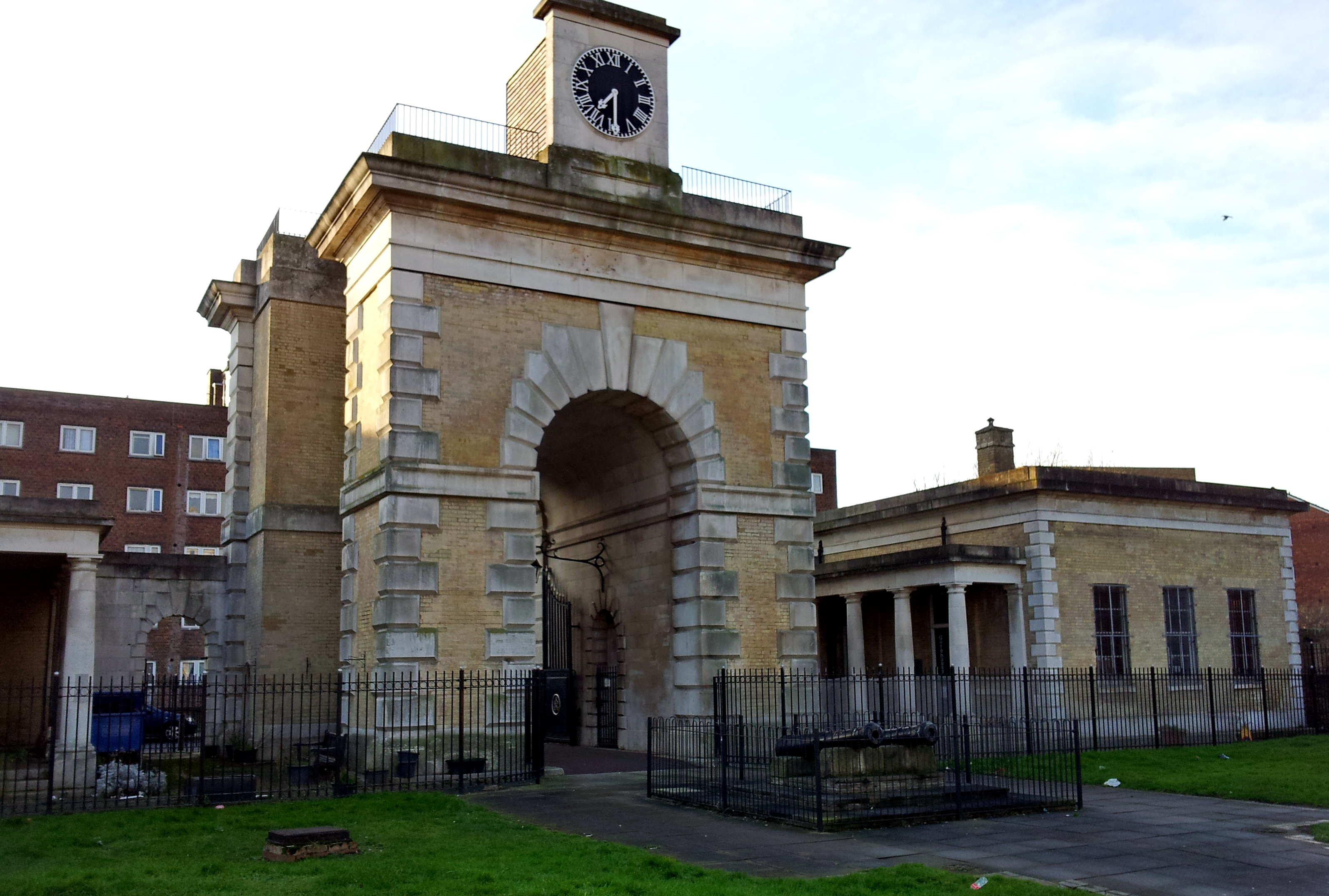 Former military gatehouse in Frances Street in Woolwich, South East London, now part of a housing estate.